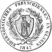 Line Drawing of 1847 shooting thaler of Glarus (KM# 20)